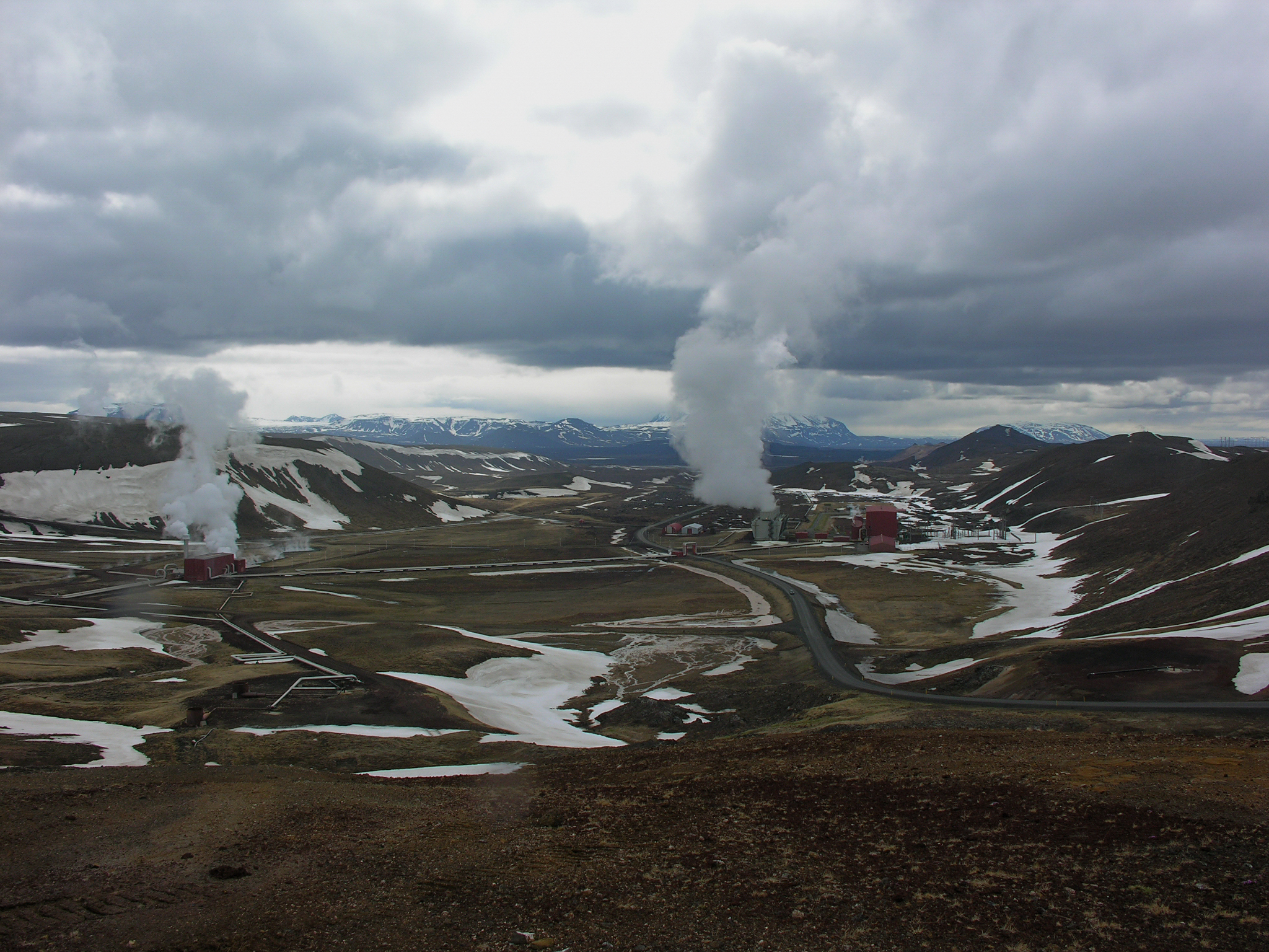 Iceland, Krafla geothermal power plant